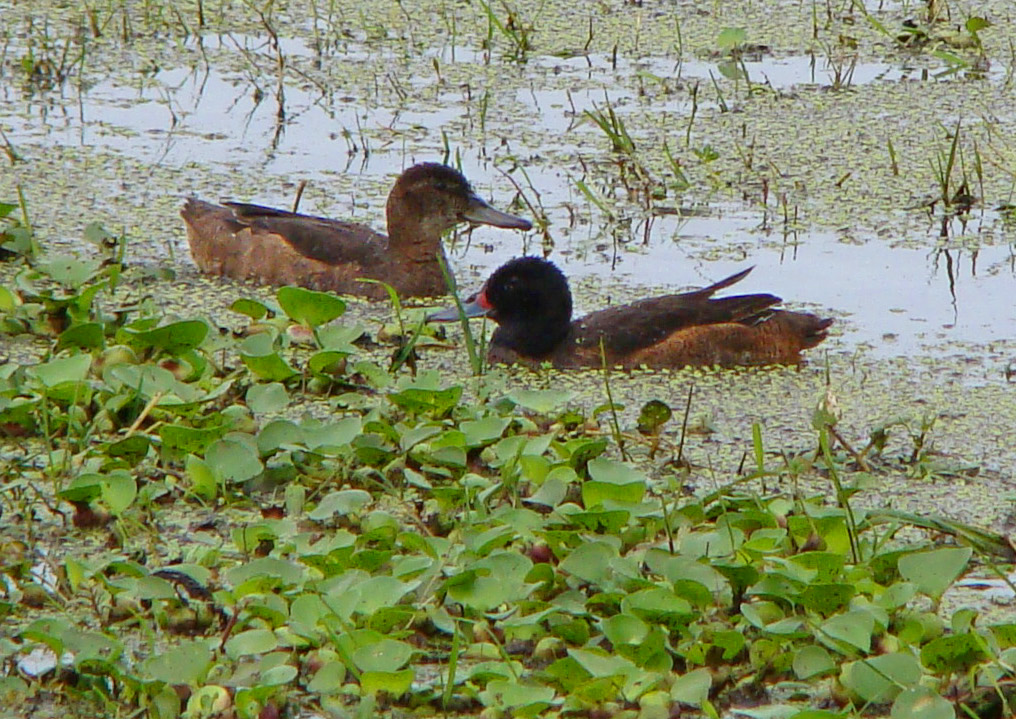 Heteronetta atricapilla couple in breeding plumage photographed in Povo Novo, Rio Grande do Sul, Brazil, in November 2009.